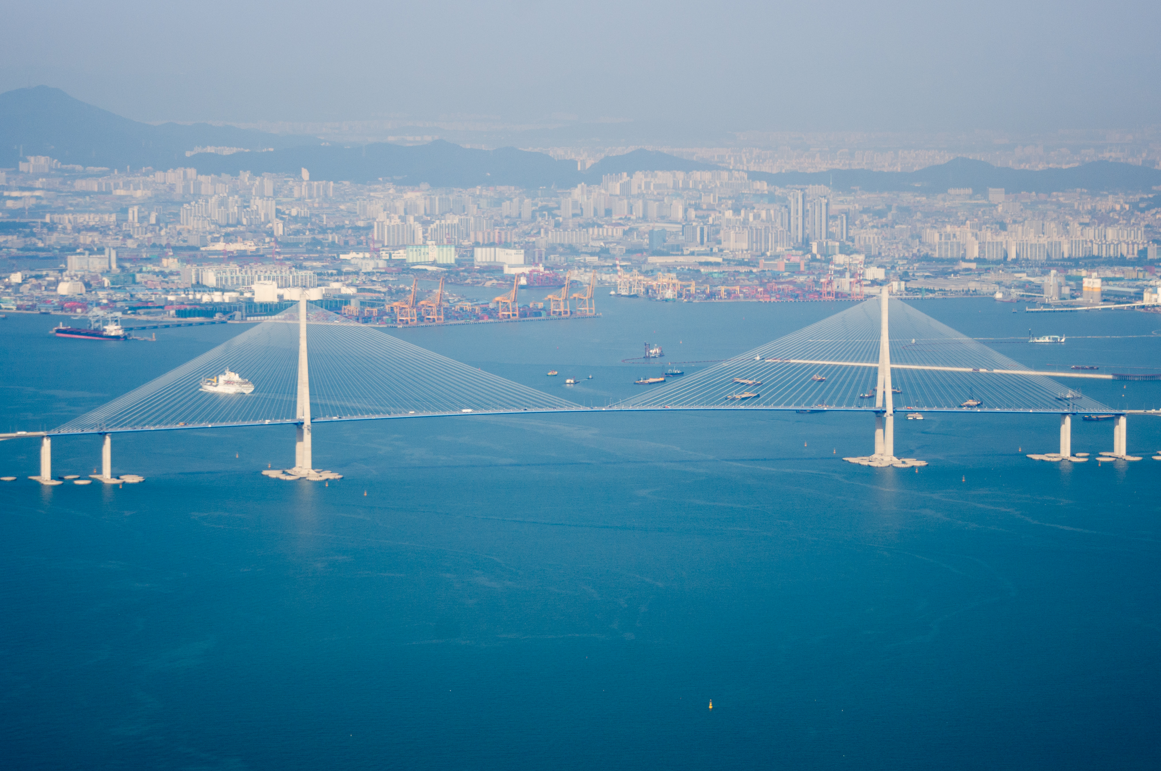 Incheon Grand Bridge, Incheon, South Korea